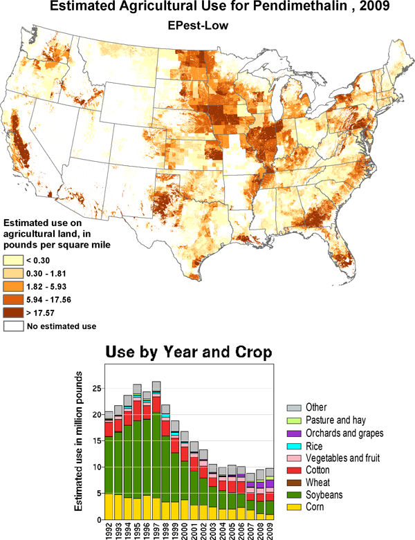 Pendimethalin map of use, USA, 2009 (estimated)